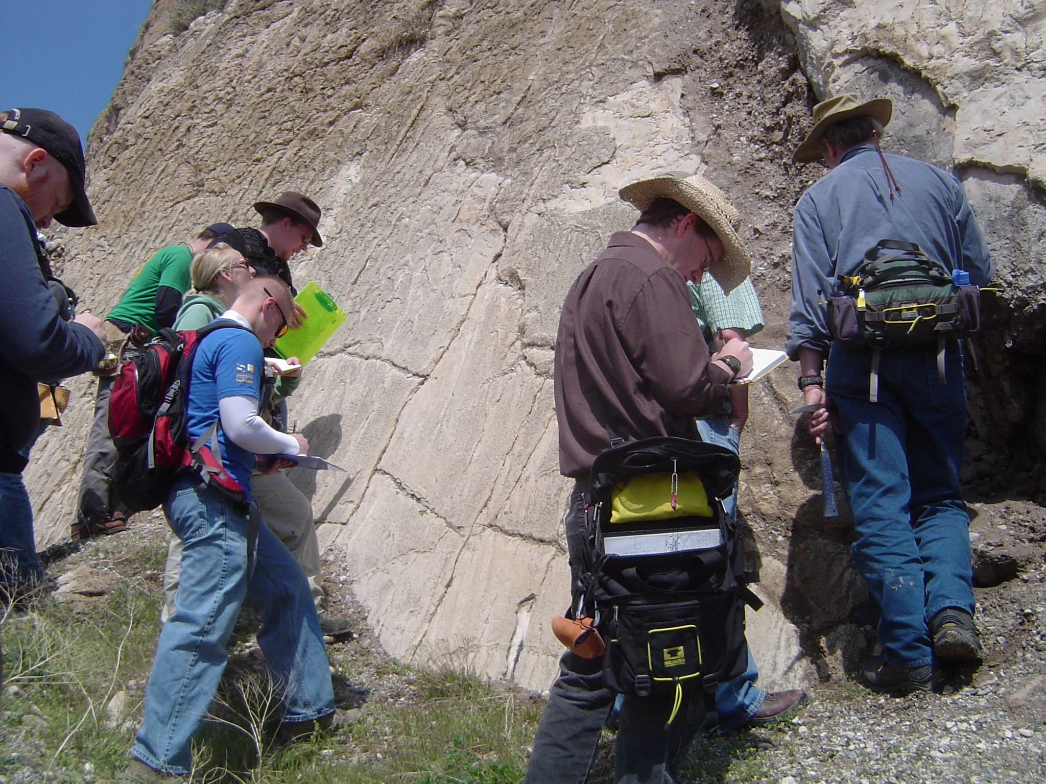 Students look at a section of the exposed Wasatch Fault, a classic normal fault located in North Salt Lake, Utah.